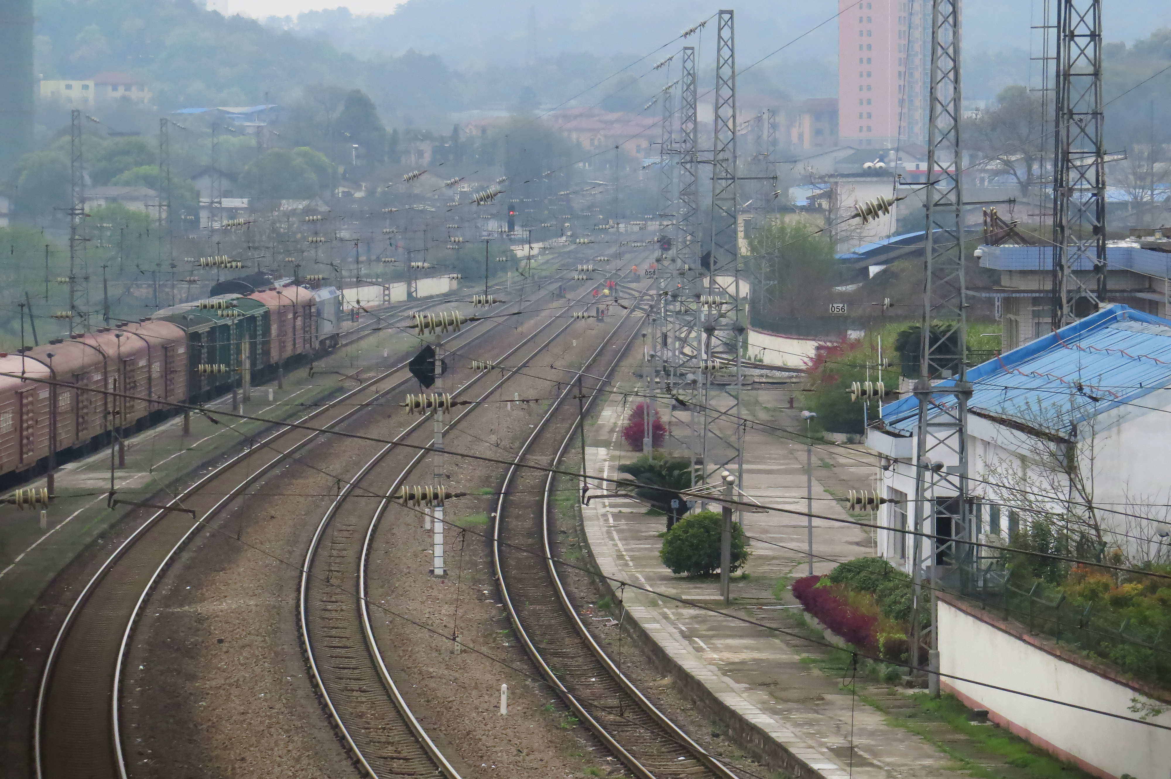 Here is the (in)famous Wulidun Railway Station, where westbound trains on Shanghai-Kunming Railway are occasionally stranded for minutes or hours to make room for the conflicting tracks in Zhuzhou. Thus, we refer to this station as "Wulidun Black Hole".